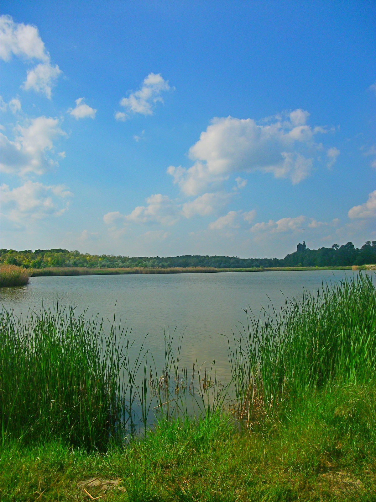 Lake Zichy near Zichyújfalu, Hungary. Lake Zichy a irrigation lake.